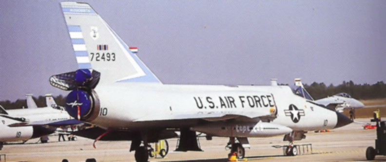 A U.S. Air Force Convair F-106A-90-CO Delta Dart (s/n 57-2493) from the 101st Fighter-Interceptor Squadron, Massachusetts Air National Guard, in the 1980s. This aircraft was retired to the AMARC as FN0174 on 22 January 1988. It was converted to an QF-106A target drone (AD208) and expended on 10 November 1994.